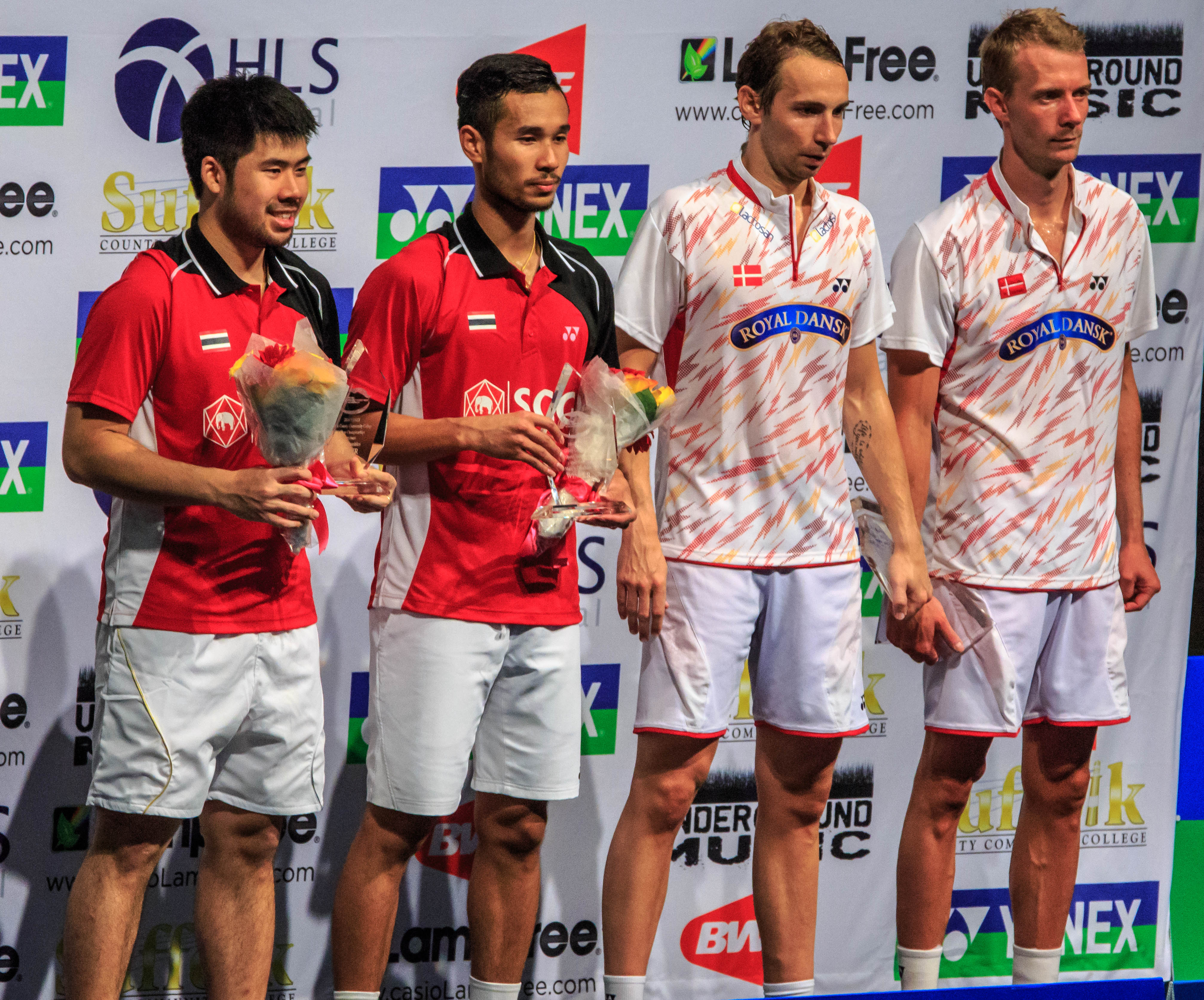 2014 BWF US Open Grand Prix Gold Badminton Championships...MD Final...Jongjit/Puangpuapech (THA) def Boe/Mogensen (DEN) 17, 15-21 18...